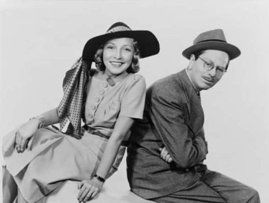 Publicity photo of Goodman and Jane Ace for their radio show, Easy Aces.